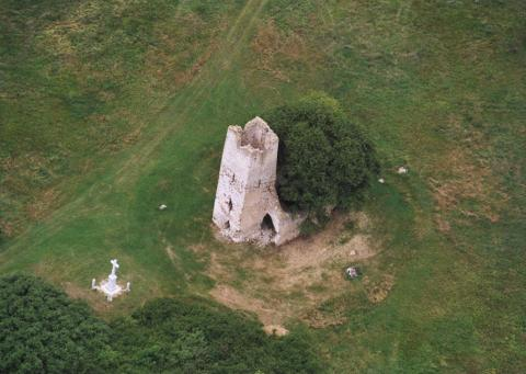 Ruins of a medieval church from Arpadian age near Gyepükaján, Hungary